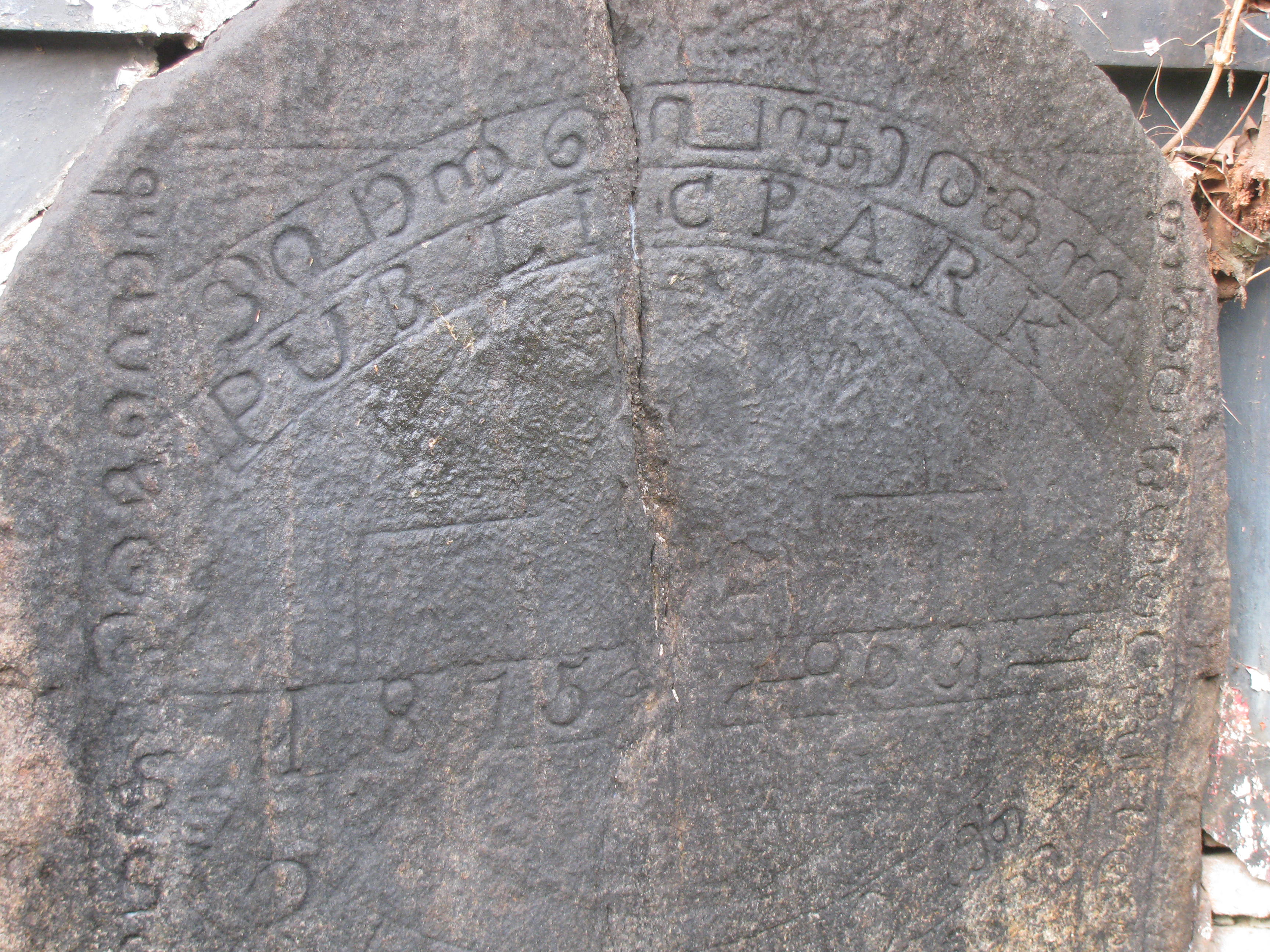 Foundation Stone of Viyyur Park, Thrissur, Kerala, India, laid in 1875 CE.